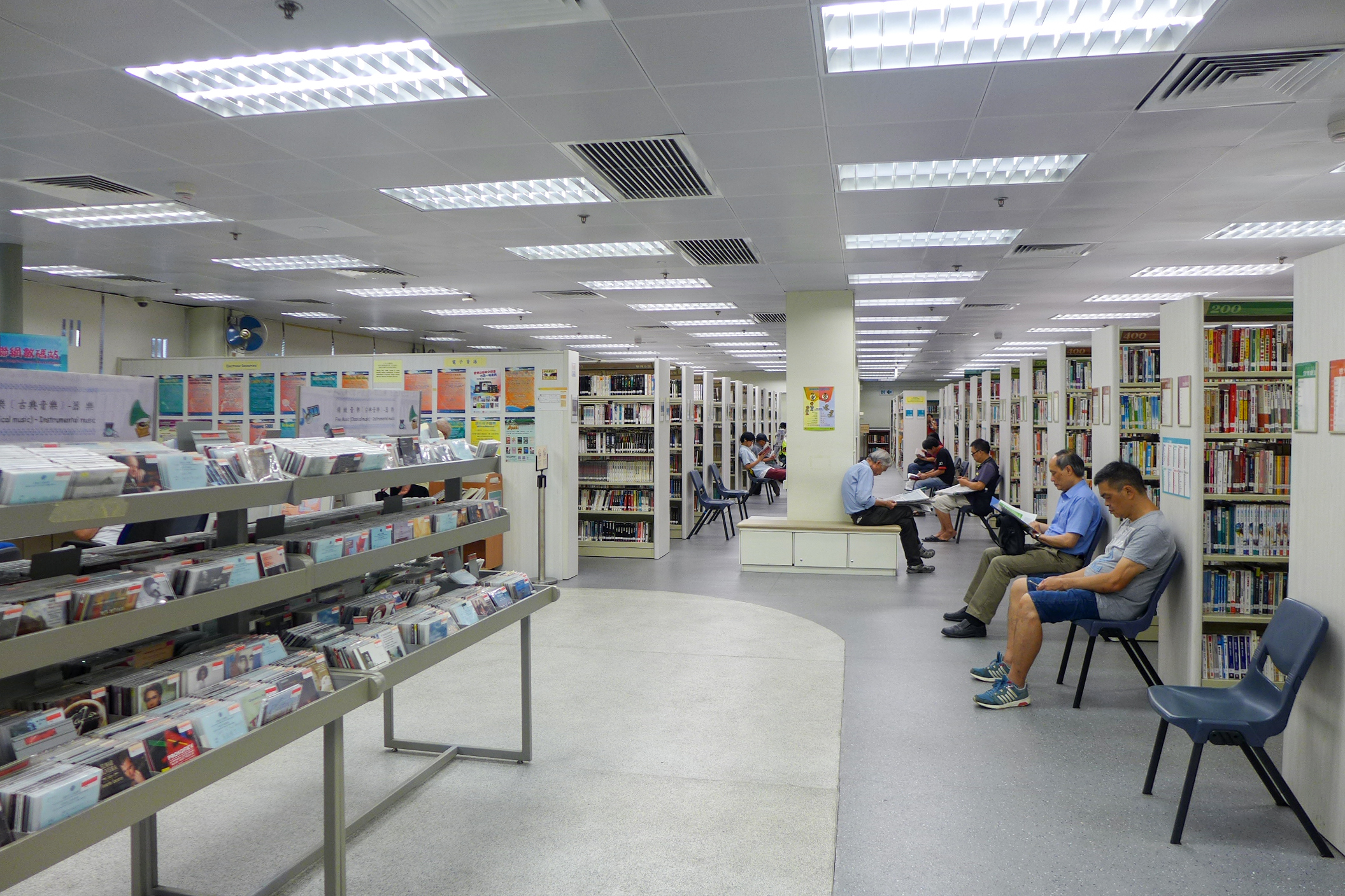 Sheung Shui Public Library